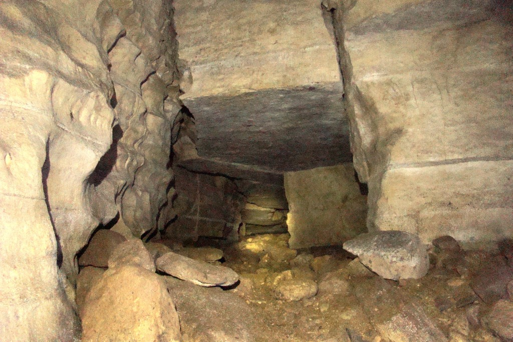 Corridor that measures about 200m. You can see straight walls and geometric geometries in the rock.